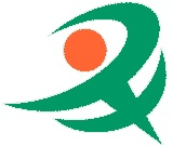 Taki Mie chapter